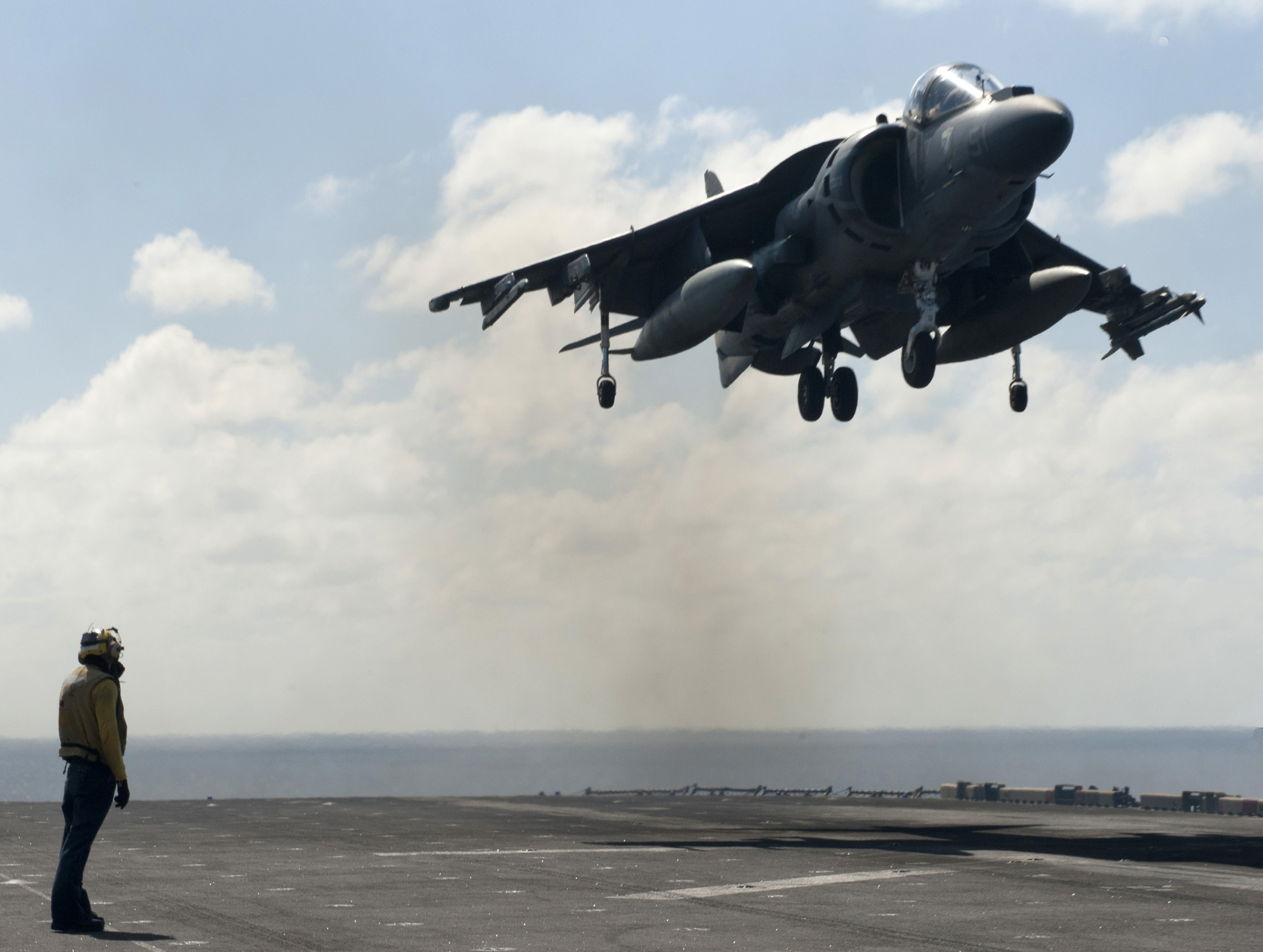 ARABIAN SEA (May 7, 2012) An AV-8B Harrier, assigned to Marine Medium Helicopter Squadron 268 Reinforced, prepares to land aboard the amphibious assault ship USS Makin Island (LHD 8). Makin Island and embarked Marines assigned to the 11th Marine Expeditionary Unit are deployed supporting maritime security operations and theater security cooperation efforts in the U. S. 5th Fleet are of responsibility. (U.S. Navy photo by Mass Communication Specialist Seaman Kory Alsberry/Released) 120507-N-JO908-032 Join the conversation navylive.dodlive.mil